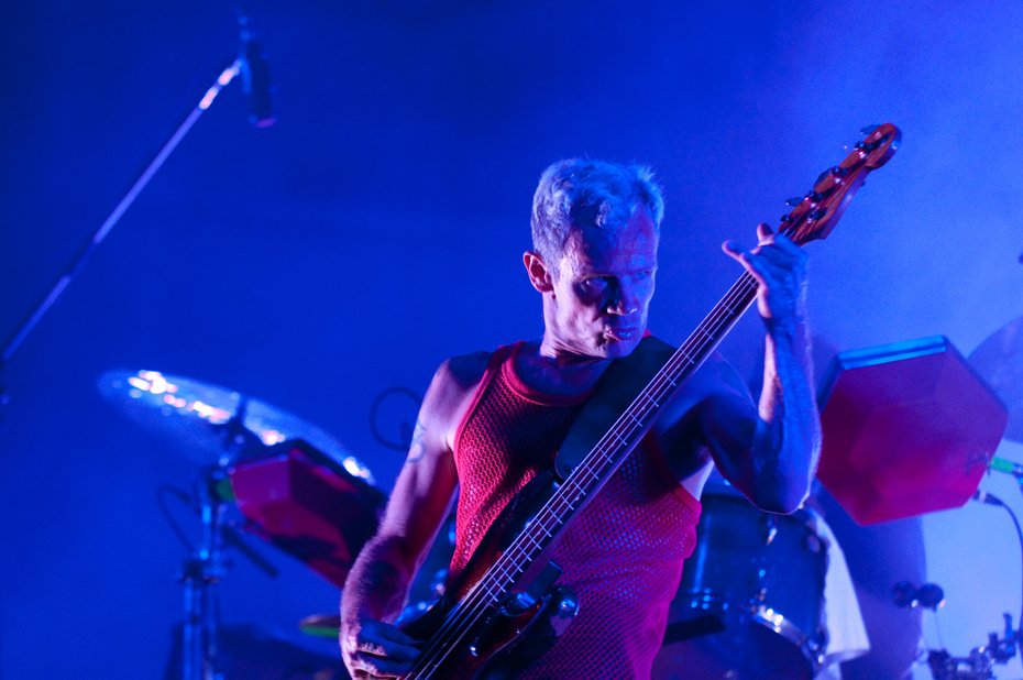 Flea from Atoms for Peace.